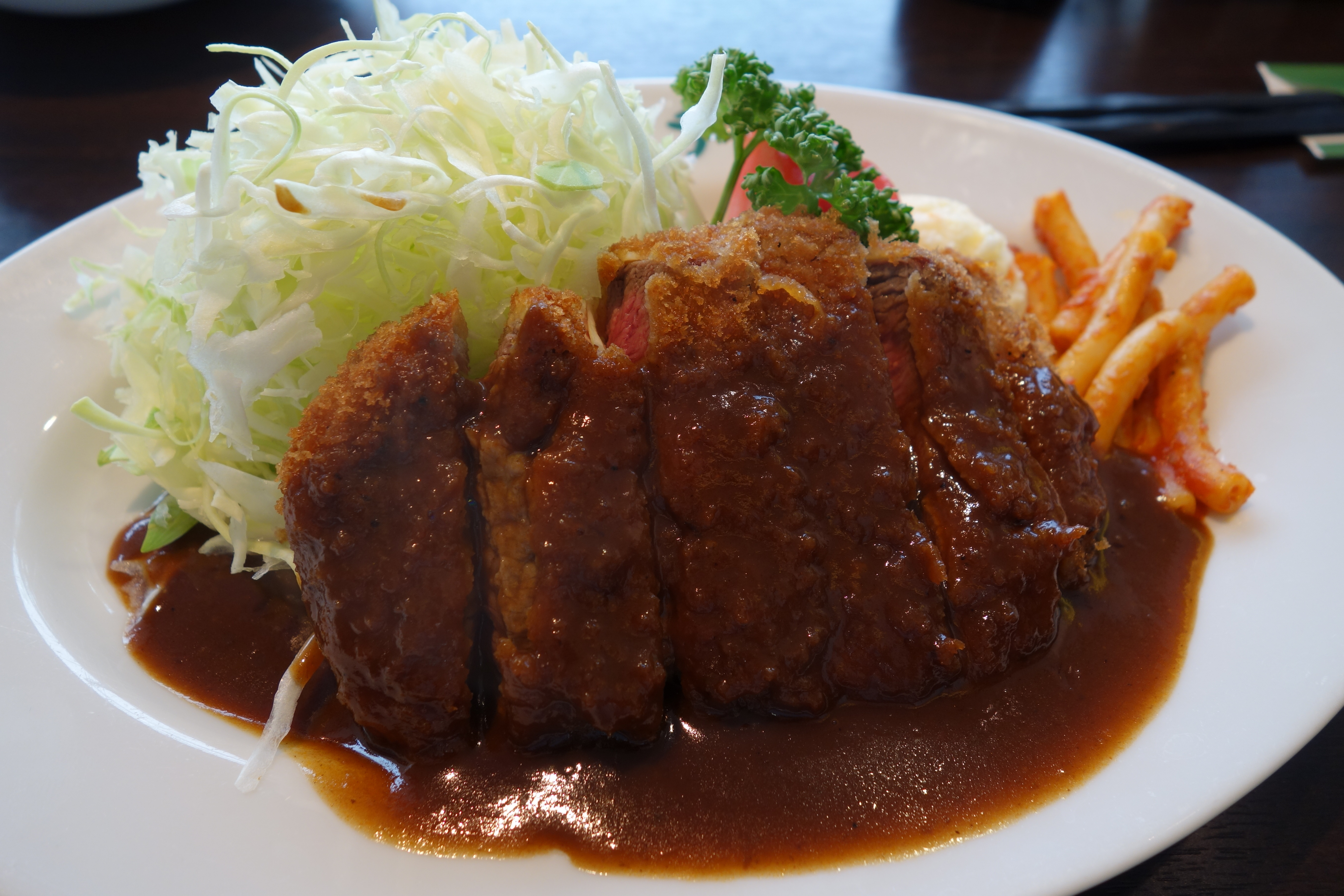 Beef cutlet